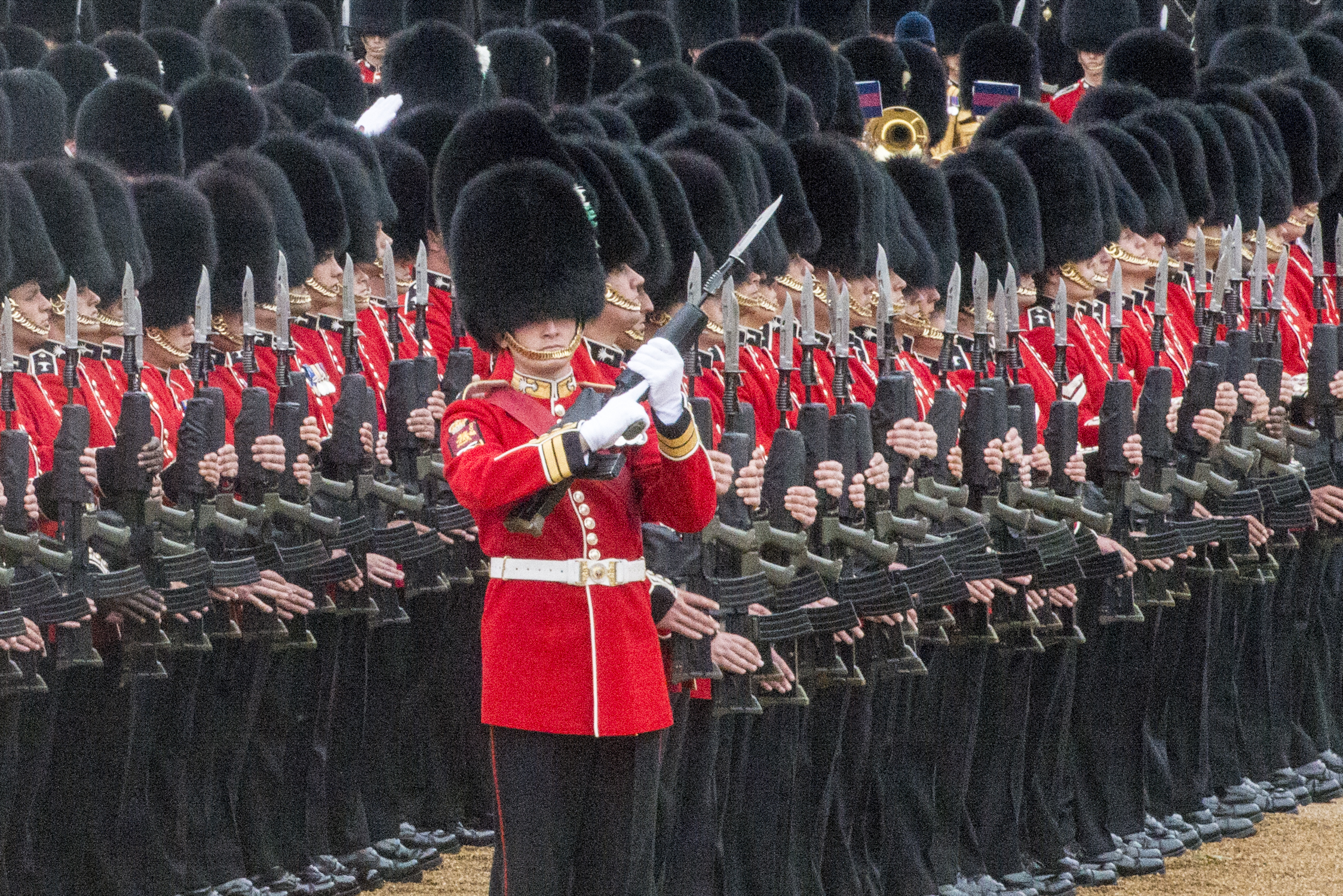 Gen. Martin E. Dempsey, chairman of the Joint Chiefs of Staff, attends Queen Elizabeth II Trooping the Colour parade on June 13, 2015 in London, England. Dempsey was invited to the ceremony as a representative for the U.S. military by his British counterpart Gen. Sir Nick Houghton. (DoD photo by D. Myles Cullen/Released) Unit: Joint Combat Camera Center DVIDS Tags: chairman; CJCS; Dempsey; Martin E. Dempsey